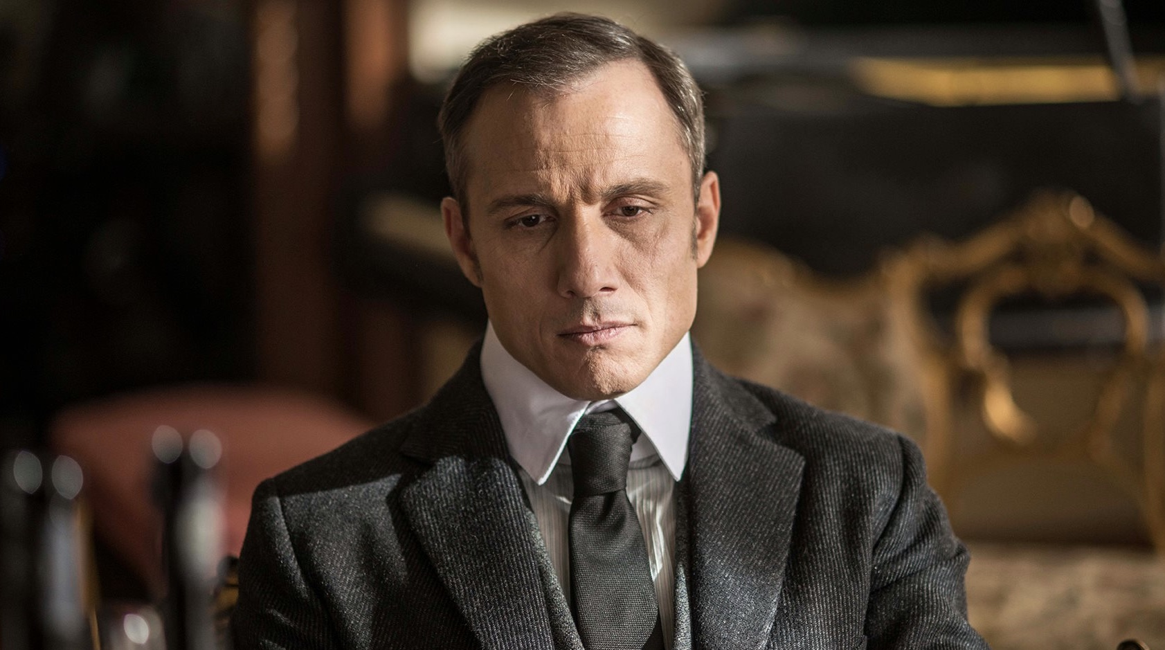 Photo taken by Aleksandar Letić